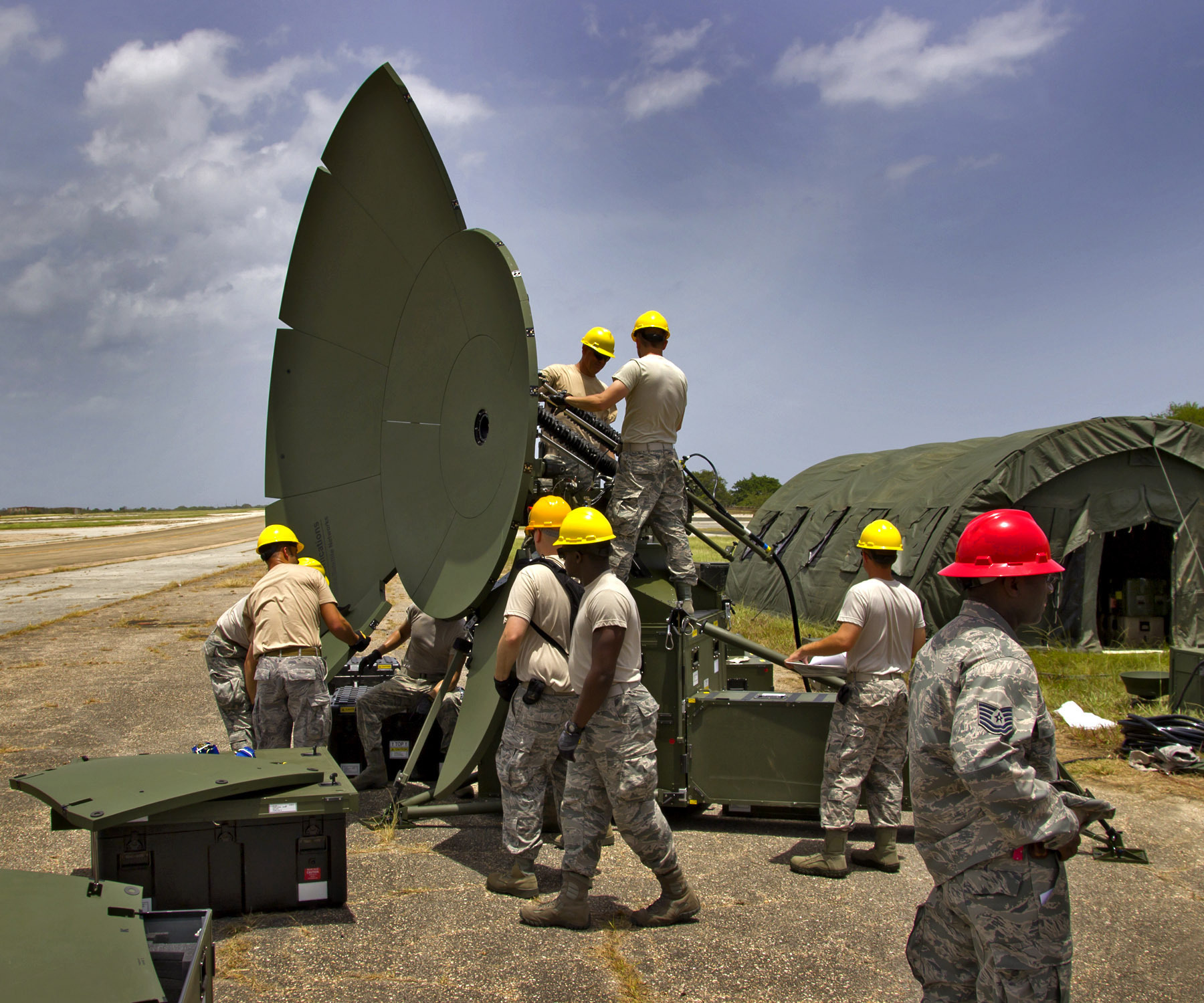 Members of the Louisiana Air National Guard's 236th Combat Communications Squadron assemble a Ground Multi-Band Terminal at the Puerto Rico Air National Guard's 141st Air Control Squadron located in Aguadilla Puerto Rico during a training exercise on June 23, 2014. These modular, lightweight and high-capacity satellite communication ground terminals provide communications capabilities to support increasing bandwidth requirements for deployed Air Force units. The 236 CBCS is providing network support to the 141 ACS with all of their secure and unsecure communications needs such as phones, computer network access and viewable radar imagery of aircraft training in the Gulf of Mexico.